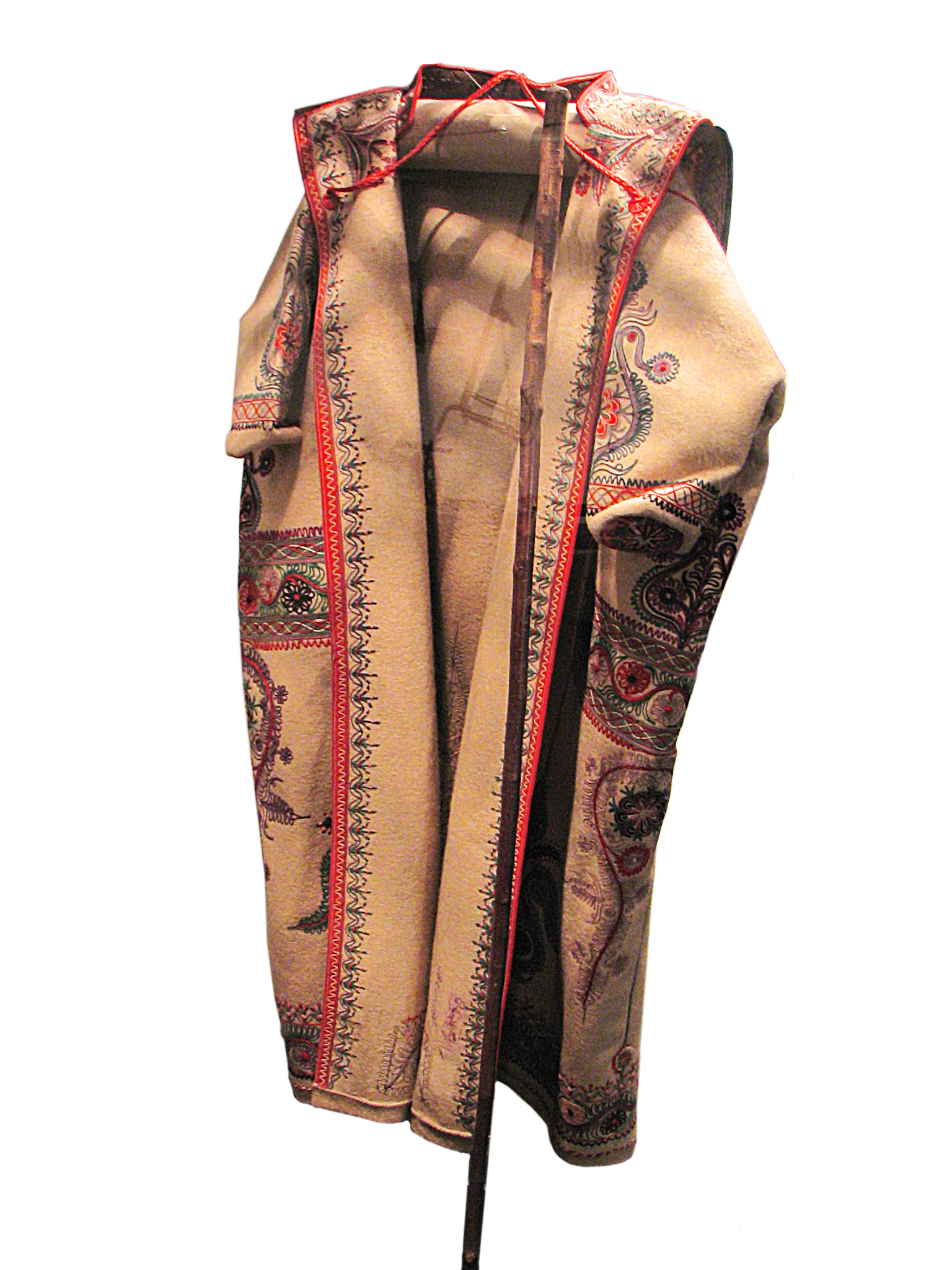 Raincoat Džoka, Ethnographic Museum, Belgrade, Serbia